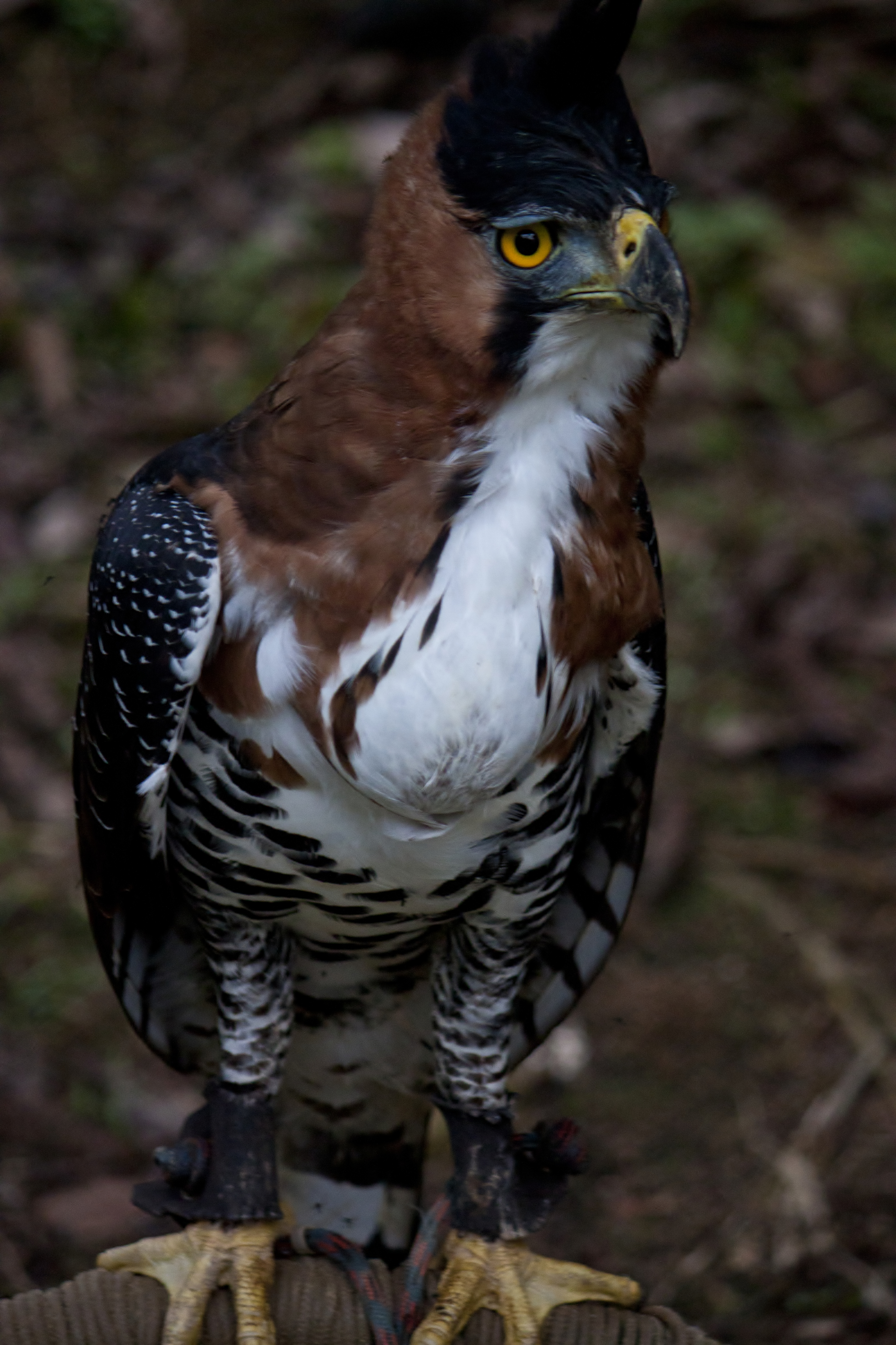 An Ornate Hawk-Eagle in captivity near Nazarillo, Loreto Region, Peru.